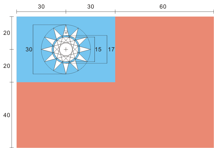 Construction sheet of the flag of the Republic of China